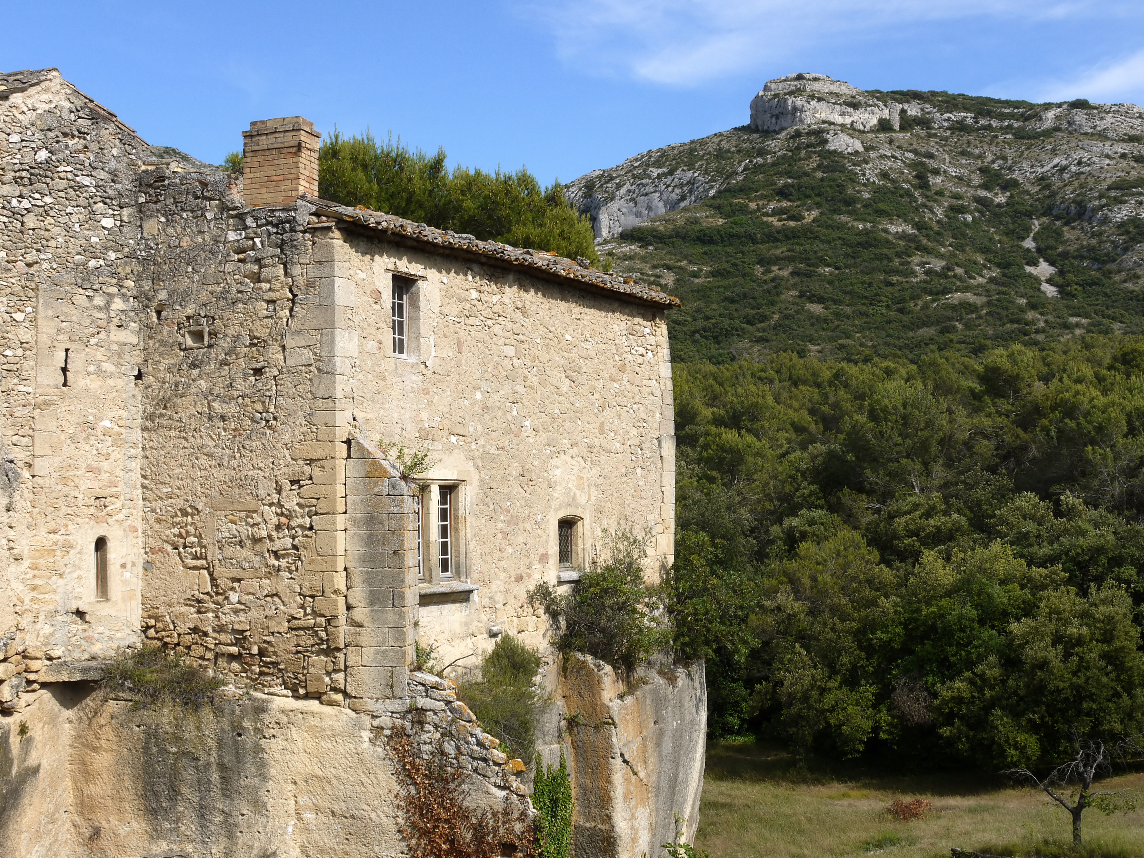 The presbytery Ste Luce (11th century) is built on cliffs which dominates the village of Les Taillades Provence France